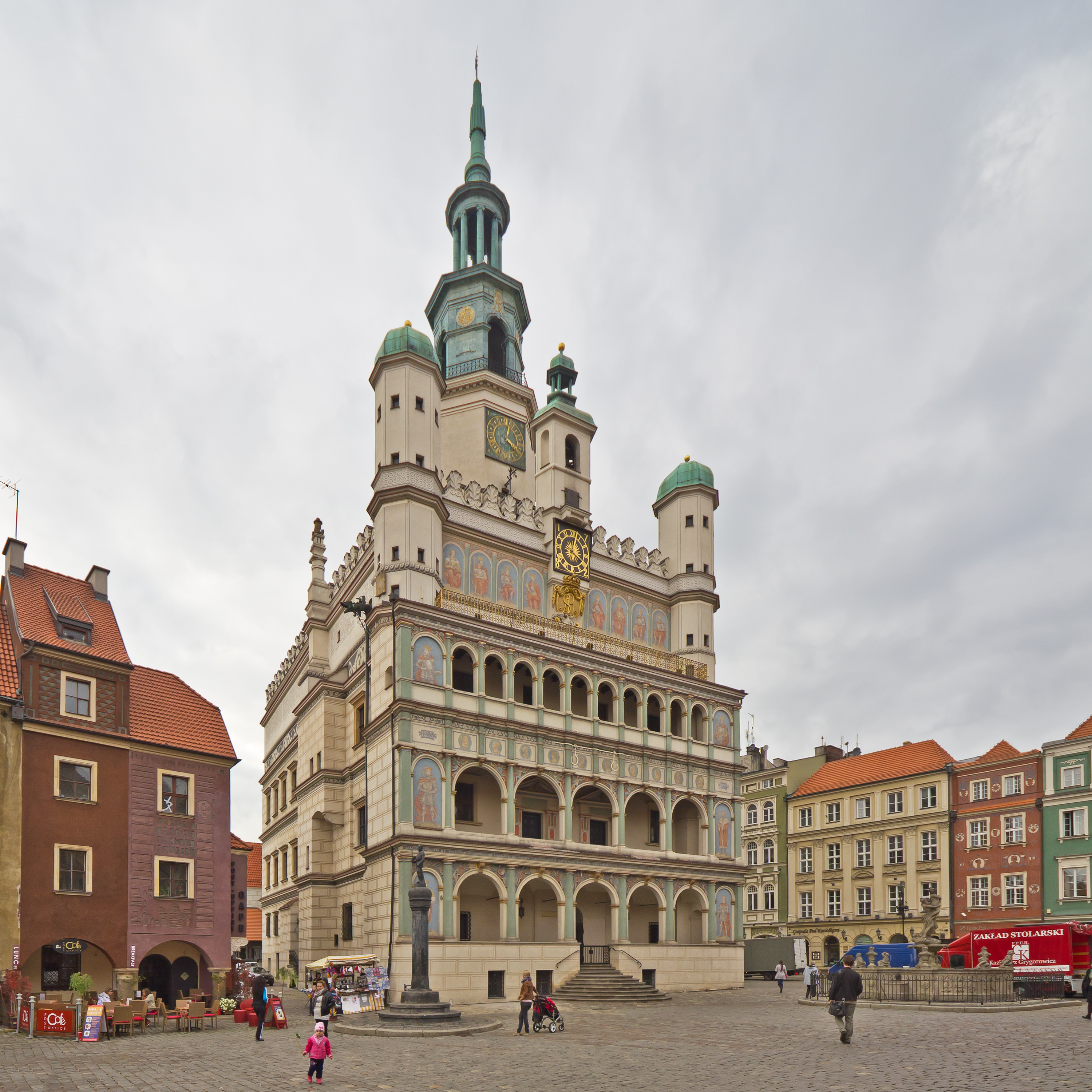 Town hall in Poznań, Greater Poland